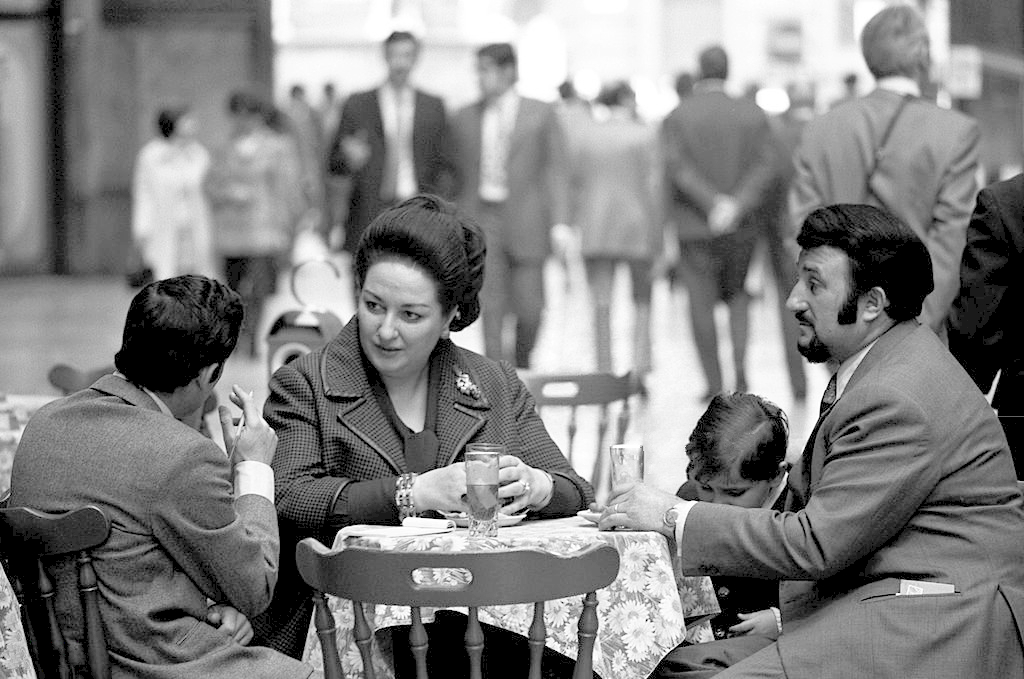 The Spanish soprano Montserrat Caballé, with her husband the Spanish tenor Bernabé Marti and her son Bernabé II, sitting at a bar table in Galleria Vittorio Emanuele II. Milan, 1971